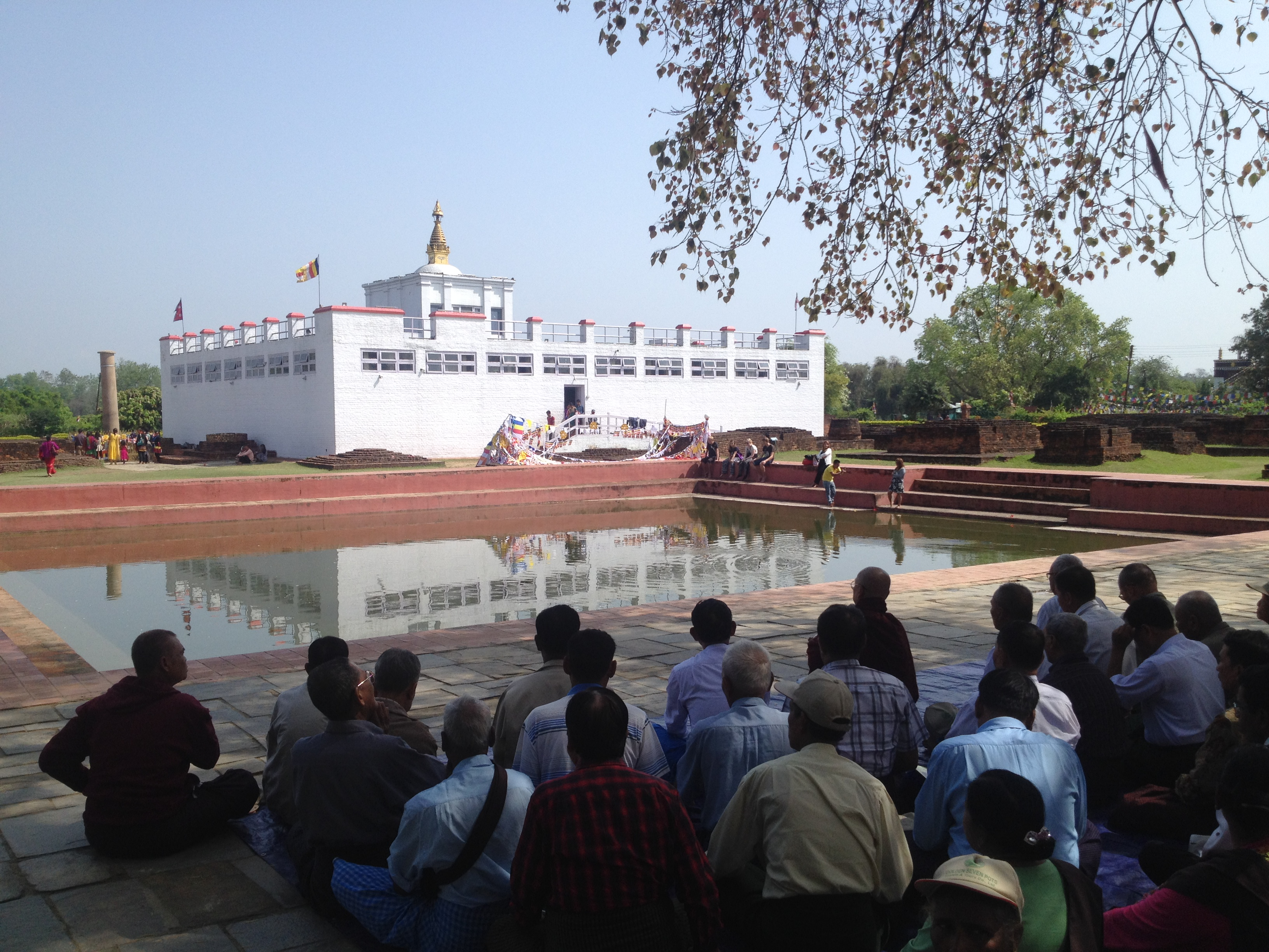 Birth Place of Lord Buddha, Lumbini